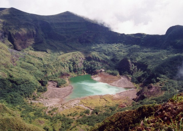 A shallow lake partially fills the summit crater of Awu volcano in this 1995 view. Gunung Awu volcano, one of the deadliest in Indonesia, is cut by deep valleys that form passageways for lahars dissect the flanks of the 1320-m-high volcano. Powerful explosive eruptions in 1711, 1812, 1856, 1892, and 1966 produced devastating pyroclastic flows and lahars that caused more than 8000 fatalities.